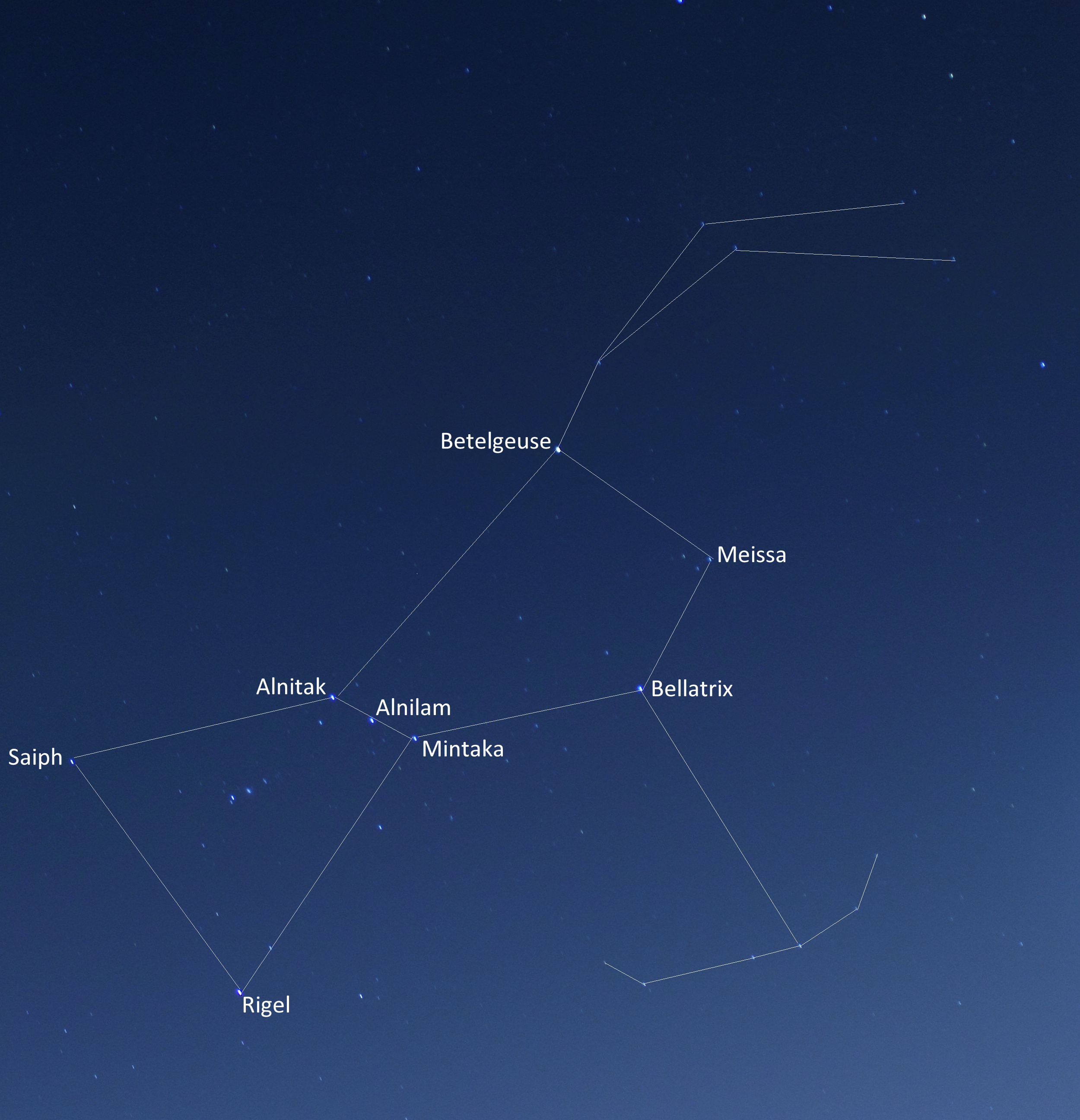 The constellation Orion with the major stars labelled